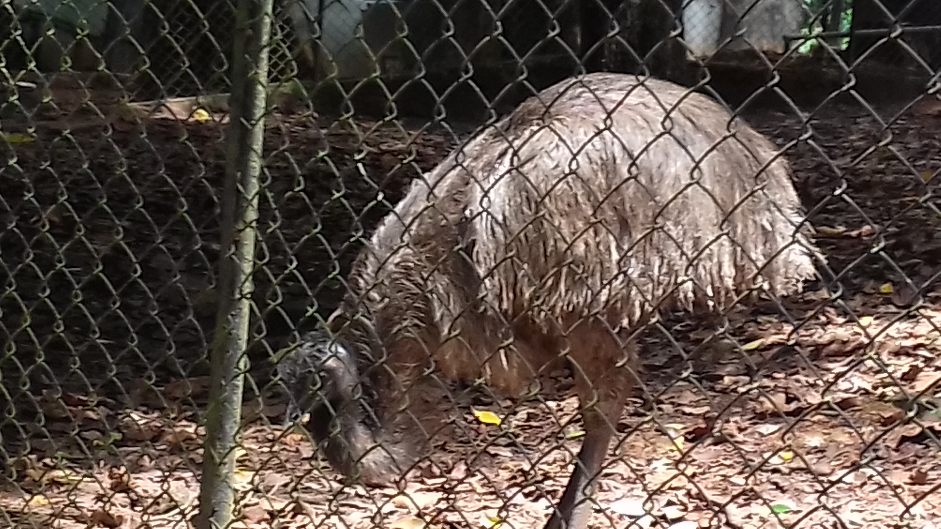 Emu in Trivandrum Zoo